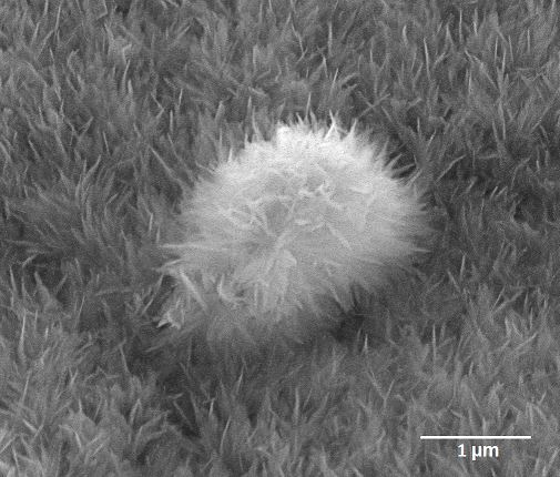 This scanning electron microscope picture visualizes needle-like hydroxyapatite crystals on stainless steel. Hydroxyapatite is important mineral for human organism and also chemically similar to the inorganic component of bone matrix. Due to its bio-compatibility and bio-activity, synthetic hydroxyapatite and coatings made of it are perfect for bio-medical applications.